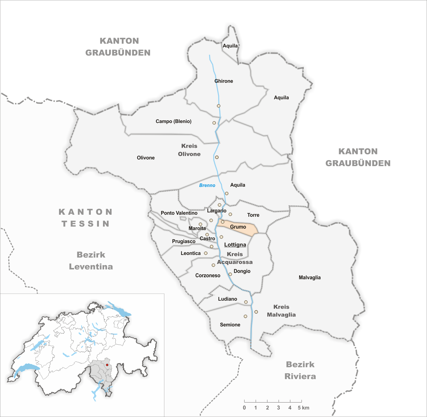 Municipality Grumo